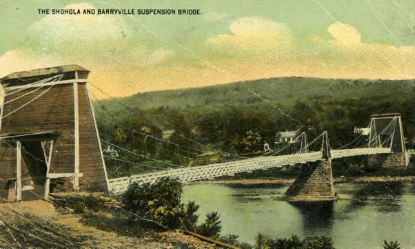 A postcard depicting the first span of the Barryville–Shohola Bridge over the upper Delaware River.